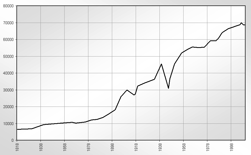 Population development of Aschaffenburg (1818-2009)